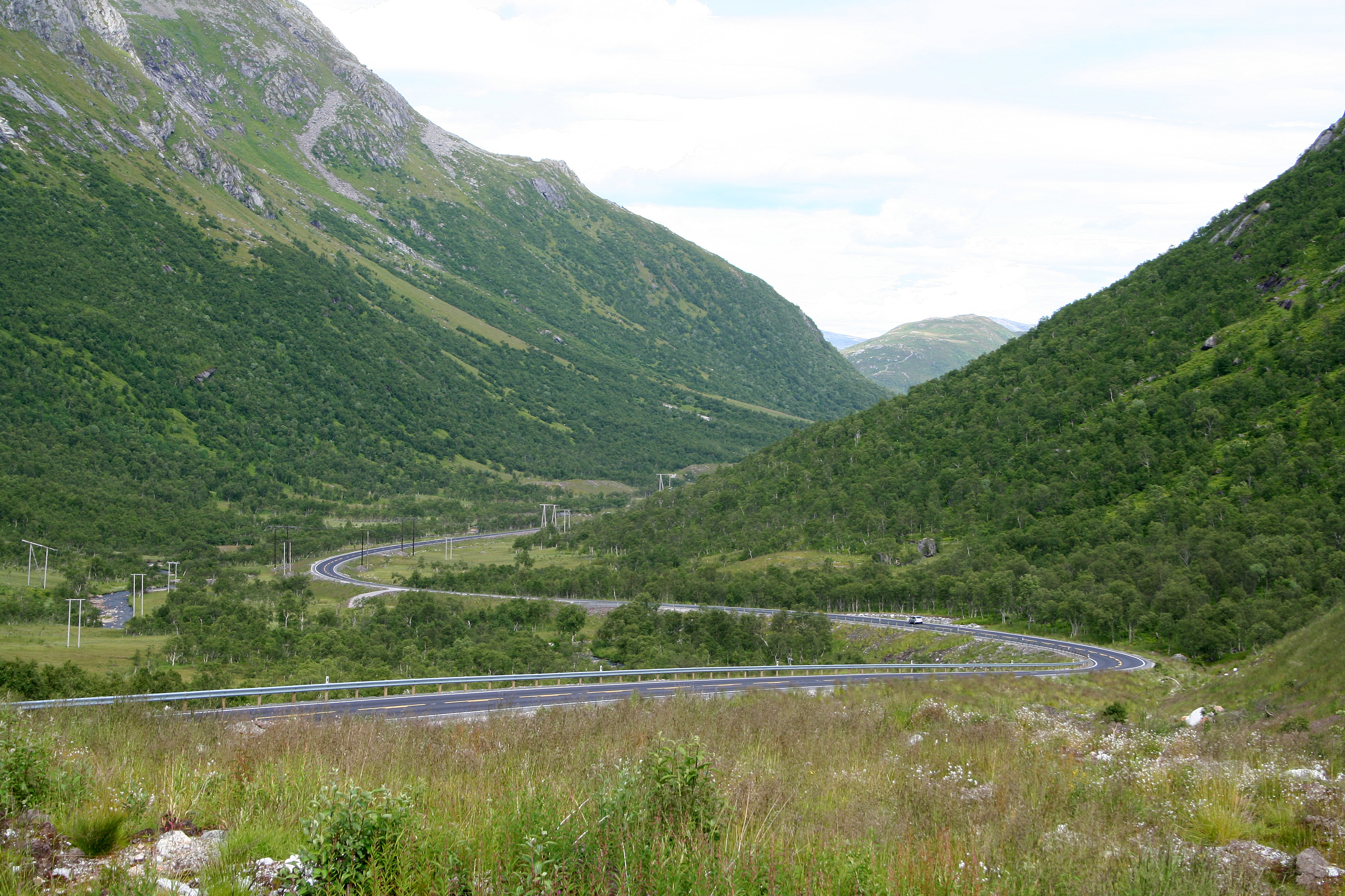 Sørdalen valley in Kvæfjord, Norway with road E10, seen northwards. The photo was taken close to the eastern portal of Sørdalen tunnel.